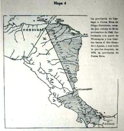 From a book of history.